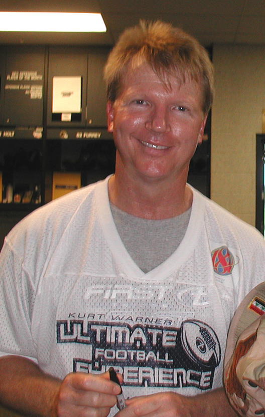 Superbowl quarterback Phil Simms, the most valuable player in winning Superbowl XXI with the New York Giants, was one of the quarterbacks invited by Kurt Warner to St. Louis. Flag football out at Rams Park involved inviting members of the 932nd Airlift Wing to play in Kurt Warner's foundation, First Things First Ultimate Football event. The Air Force Reservists were able to "draft" Marc Bulger to be their quarterback for the competition. VIRIN: 041007-F-9392S-8052